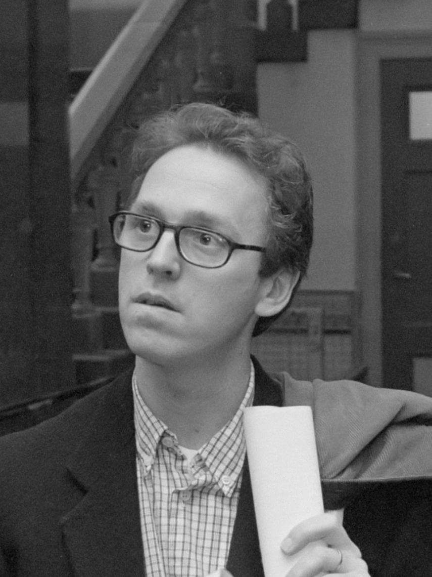 Derk Sauer (1989)